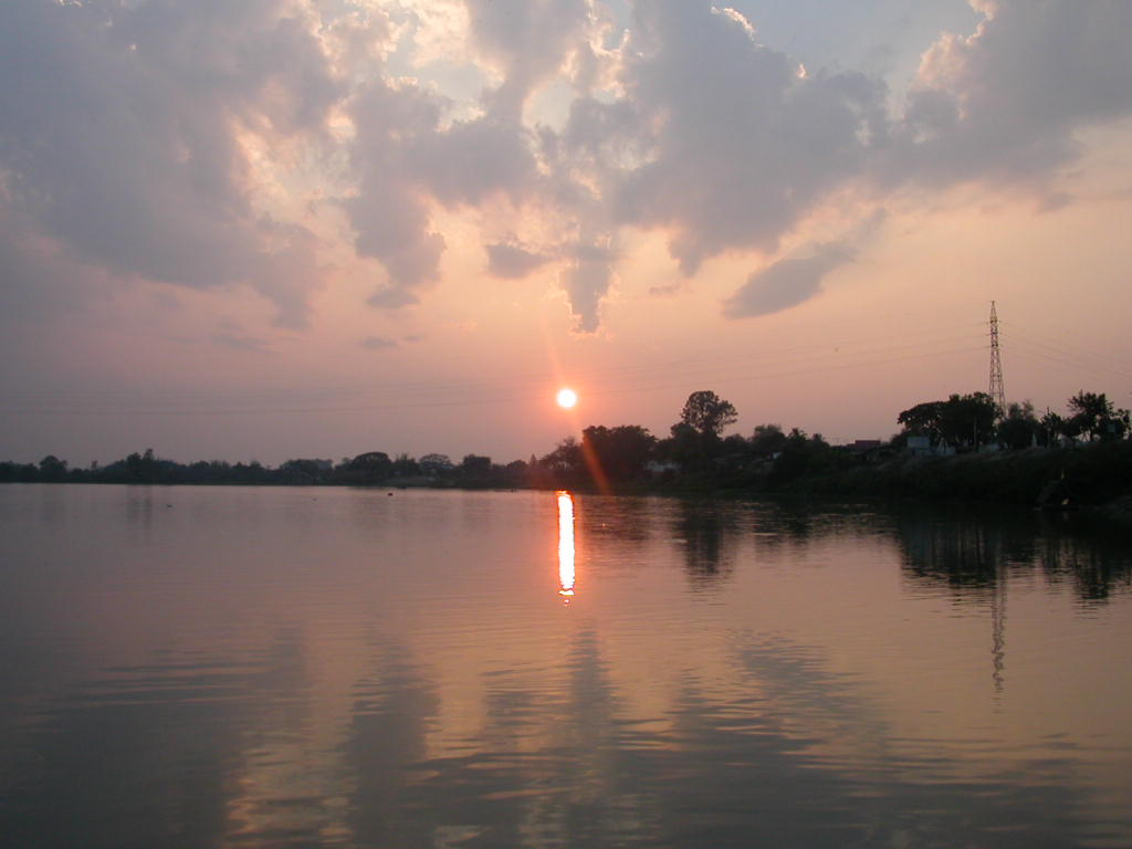 Sunset of Ubon Ratchathani (forgotten location)